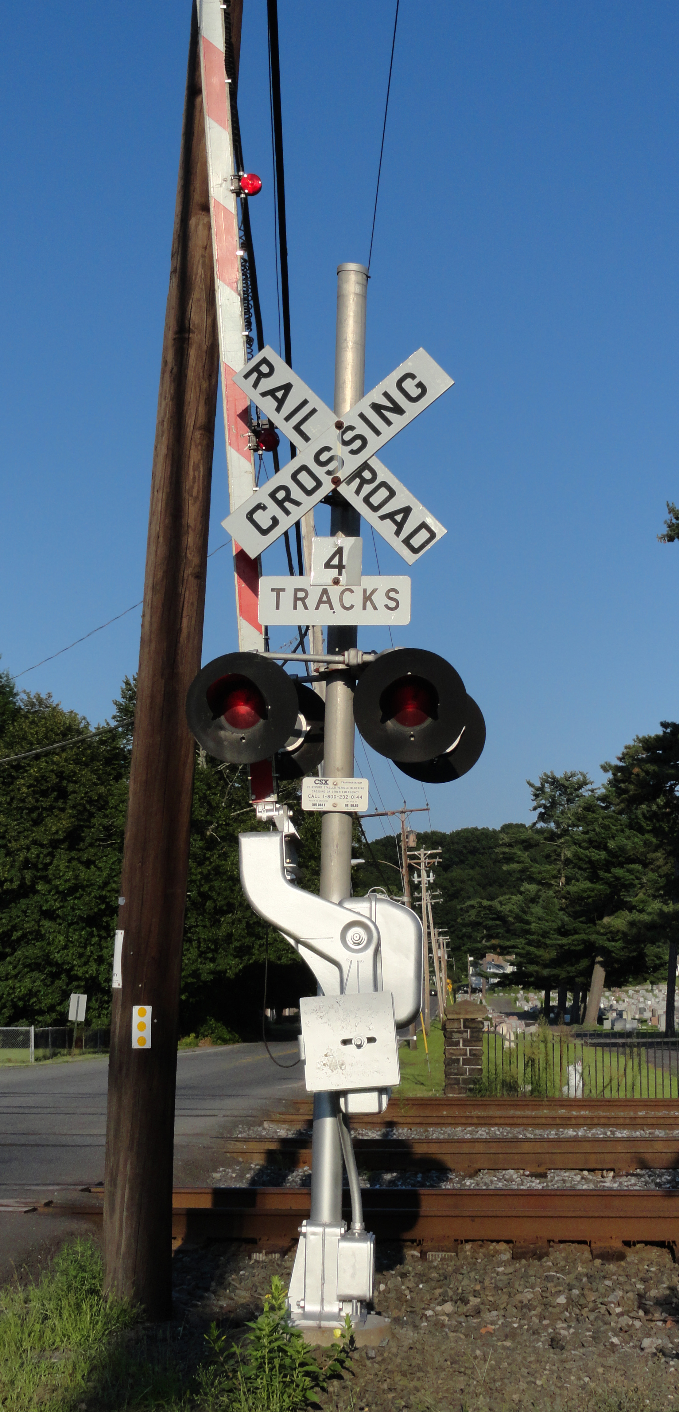 View of grade crossing railroad signal on CSX River Subdivision in Kingston, New York. Signal manufactured by Safetran. The "mech", however, is manufactured by WCH.